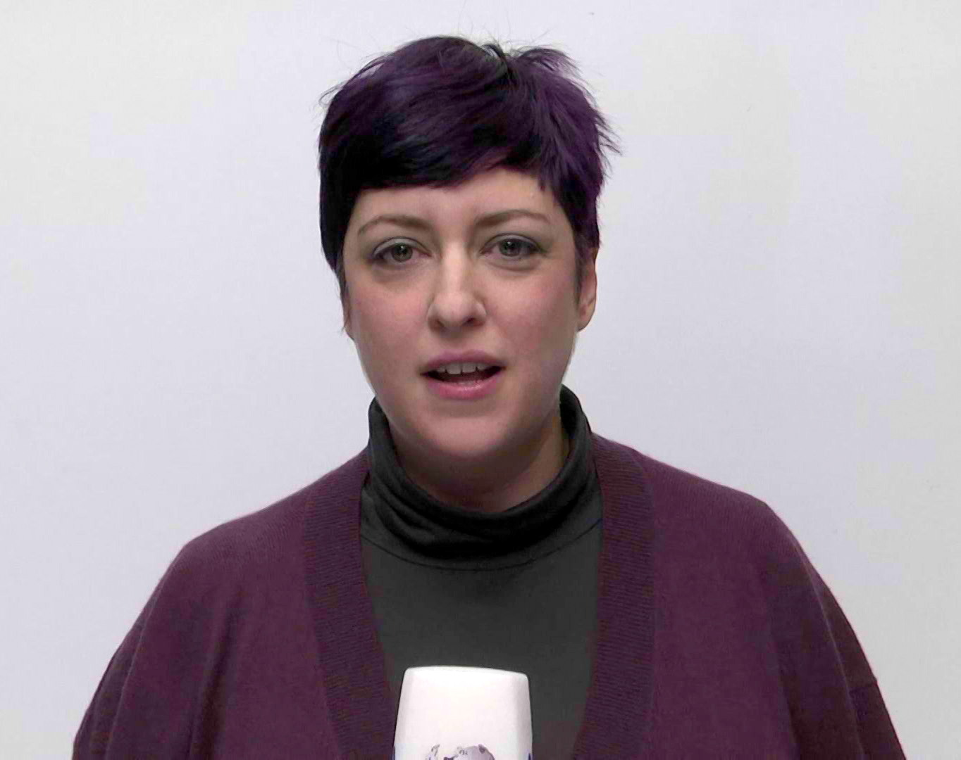 Eider Gardiazábal in a Video Project in the European Parliament 2014